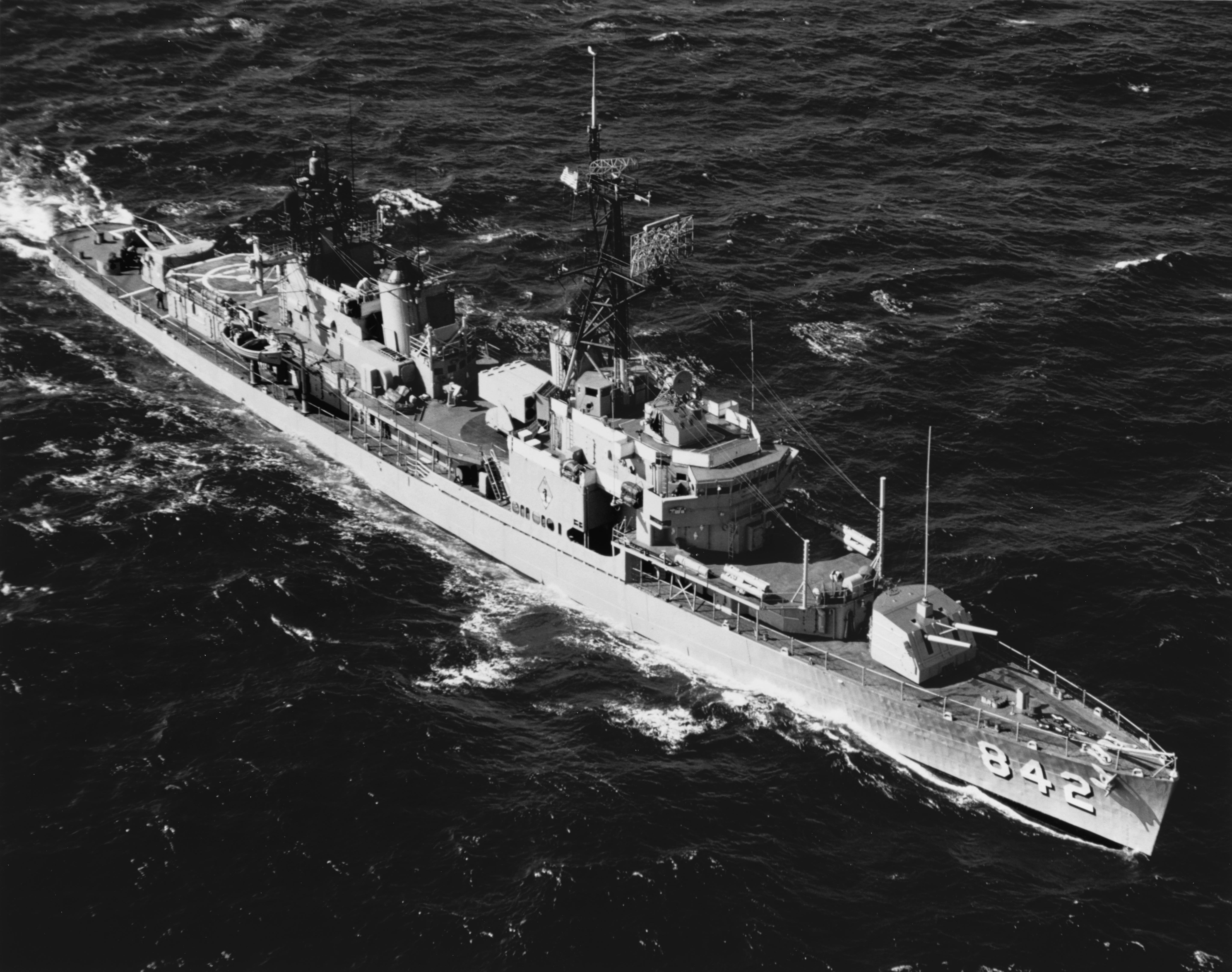 The U.S. Navy destroyer USS Fiske (DD-842) underway in the Narragansett Bay Operating Area, Atlantic Ocean, on 18 October 1971.